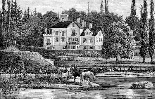 Czapski Palace, Myropil.